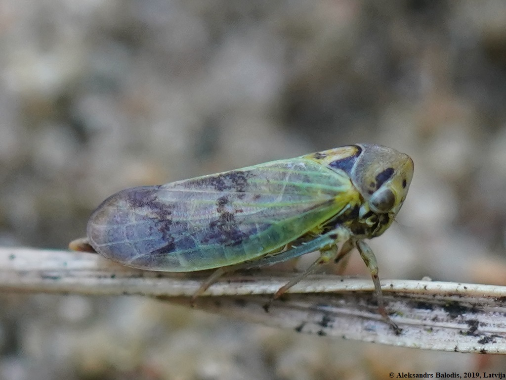 Macropsis infuscata